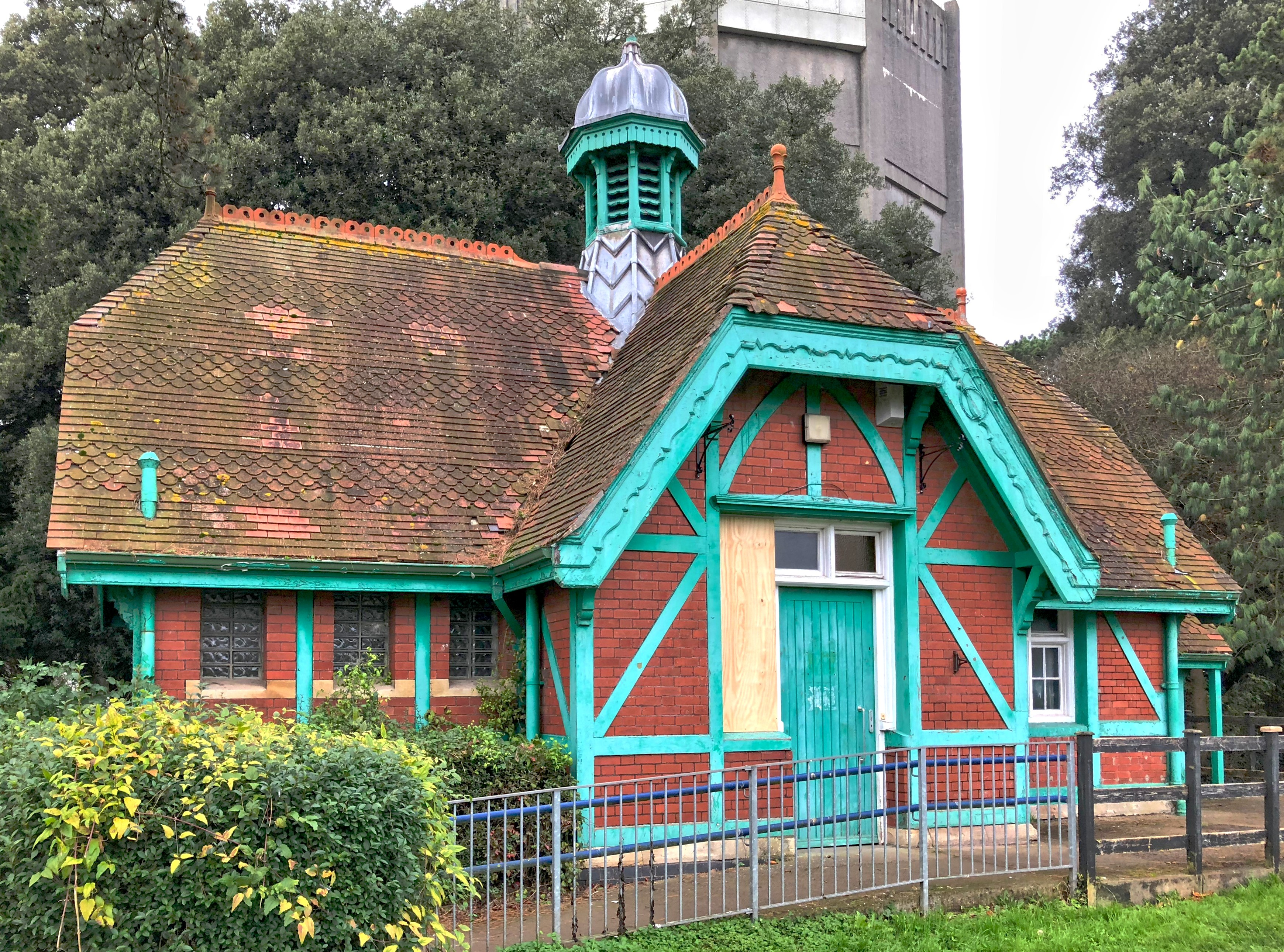 public toilet, Stoke Road, Bristol.